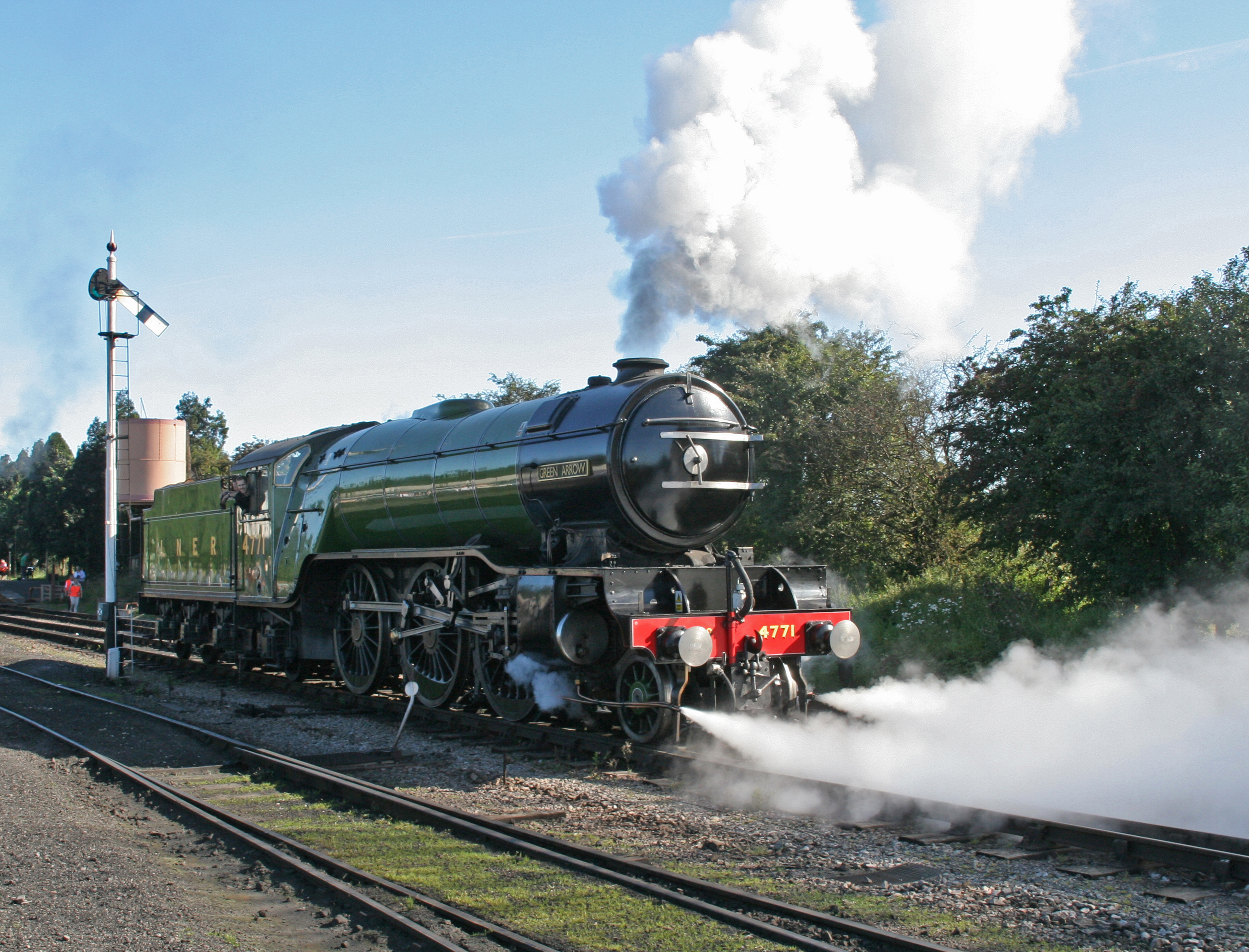 Green Arrow at Toddington on the Gloucestershire Warwickshire Railway. This may be the last year the Green Arrow is in steam. Its boiler certificate expires this year and the Green Arrow will be retired to the National Rail Museum as a static exhibit. It will need an extensive overhaul to restore it to active duty once again and it is unlikely that the NRM will be able to find the expected six-figure sum